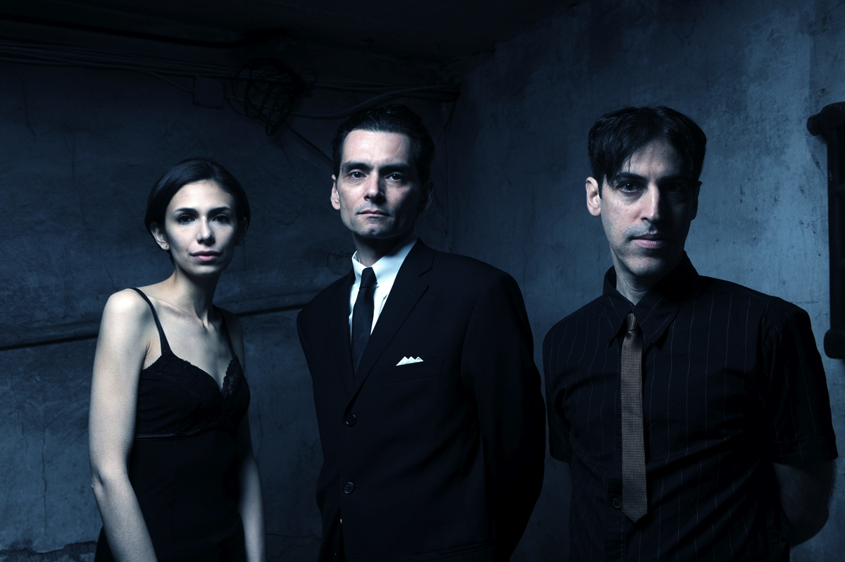 Black Tape for a Blue Girl. From left to right, Nicki Jaine, Athan Maroulis and Sam Rosenthal.